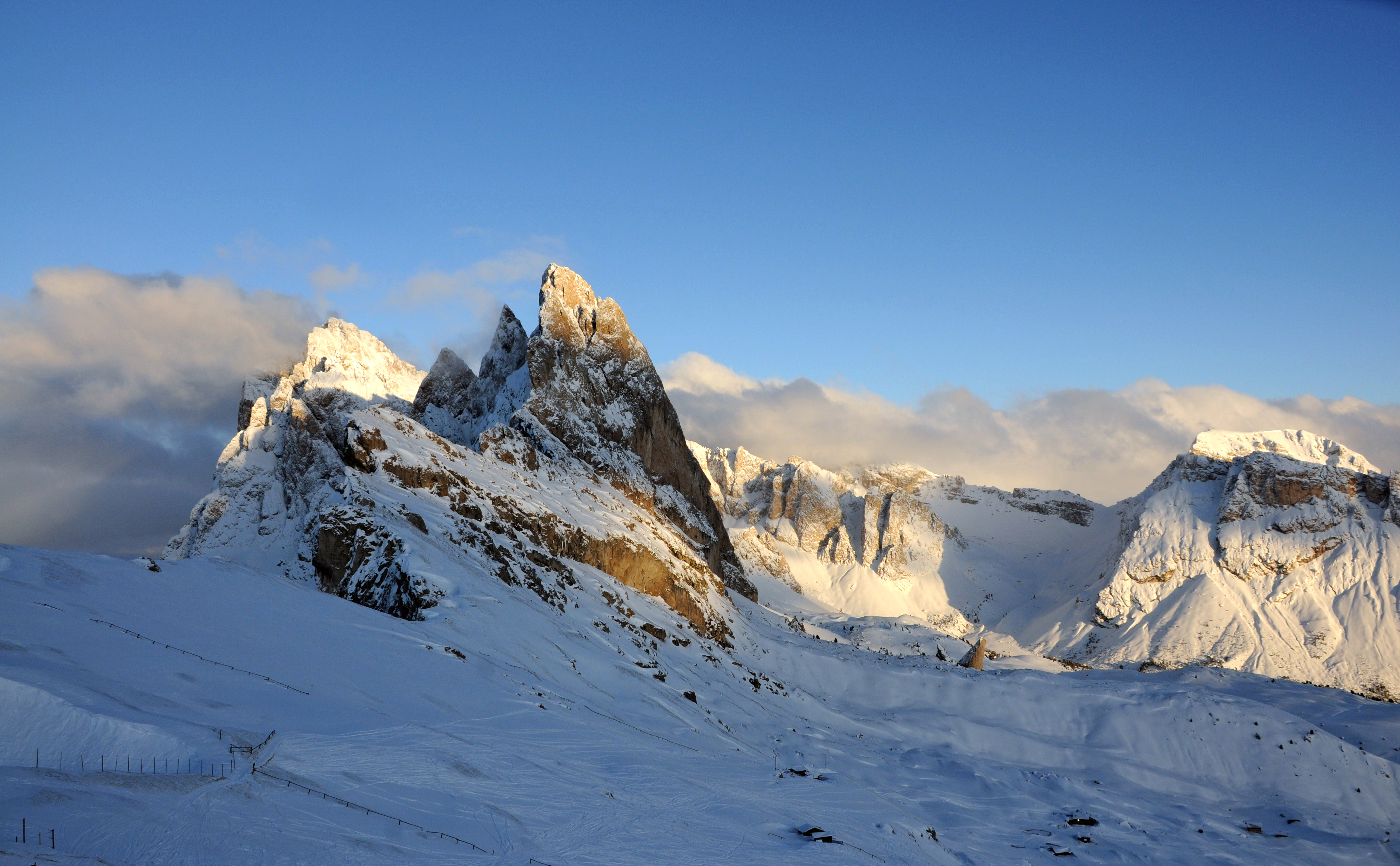 Snow on the Odles and Stevia in Val Gardena - From left to right: Sass Rigais, Gran Fermeda, Col dala Pieres.